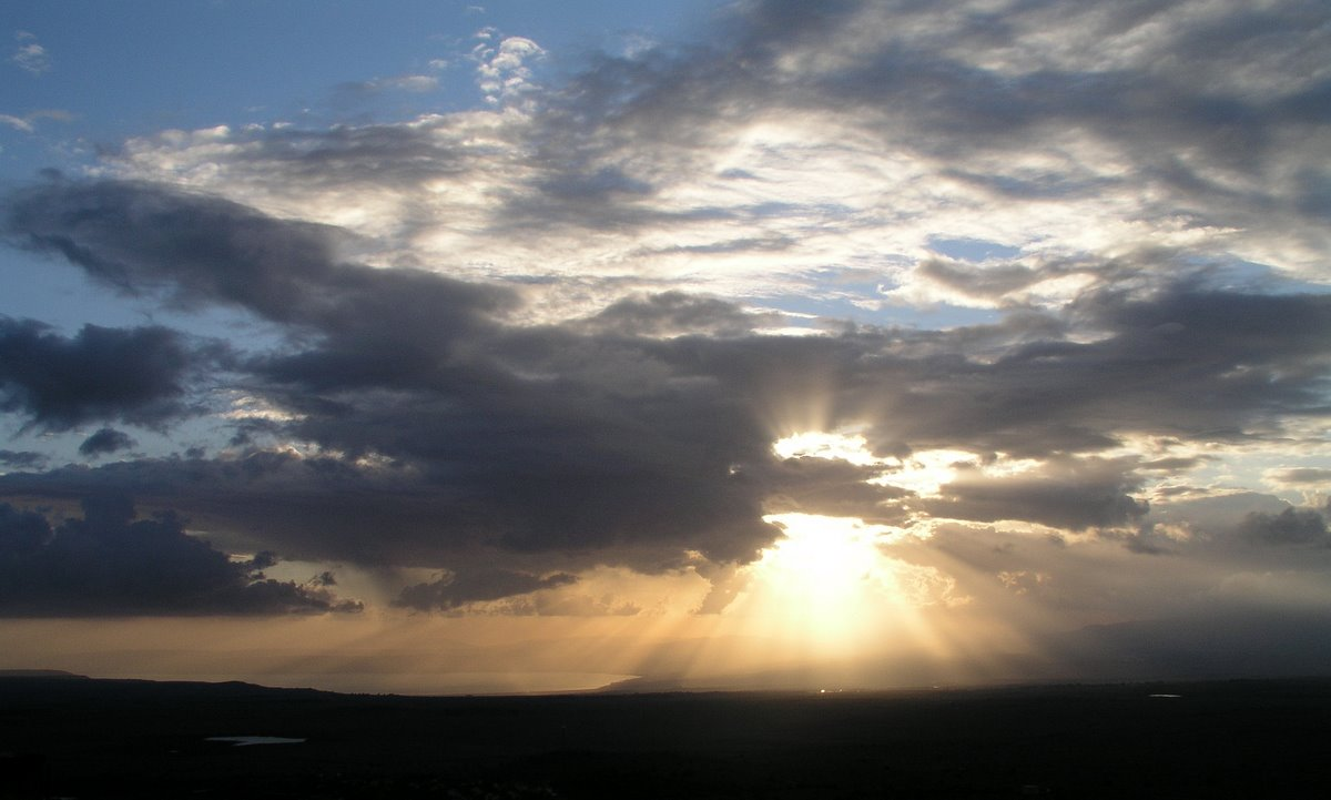 The Sea of Galilee (Lake Kinneret) as seen from the Golan Heights at sunset.